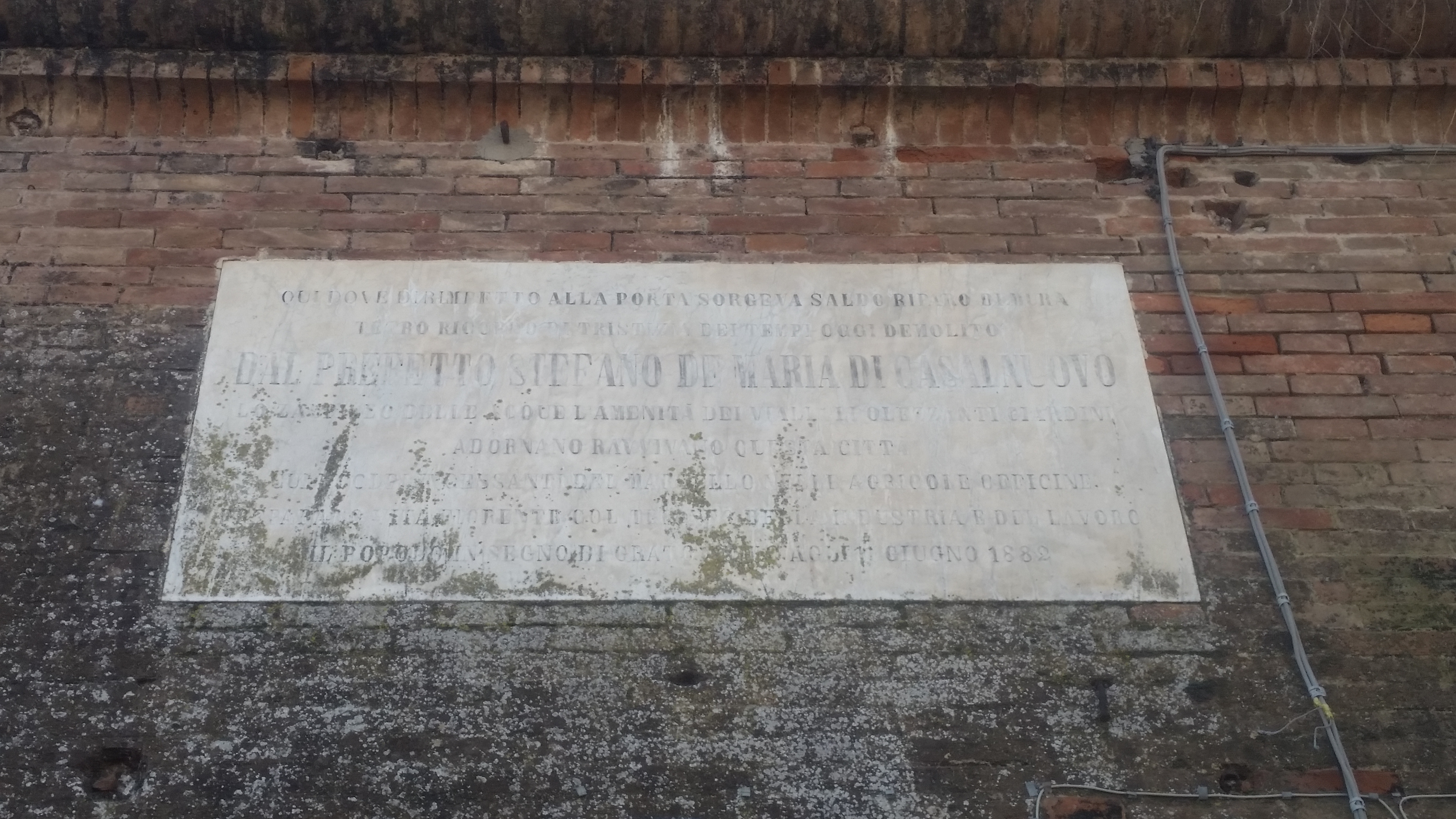 Plaque in Grosseto